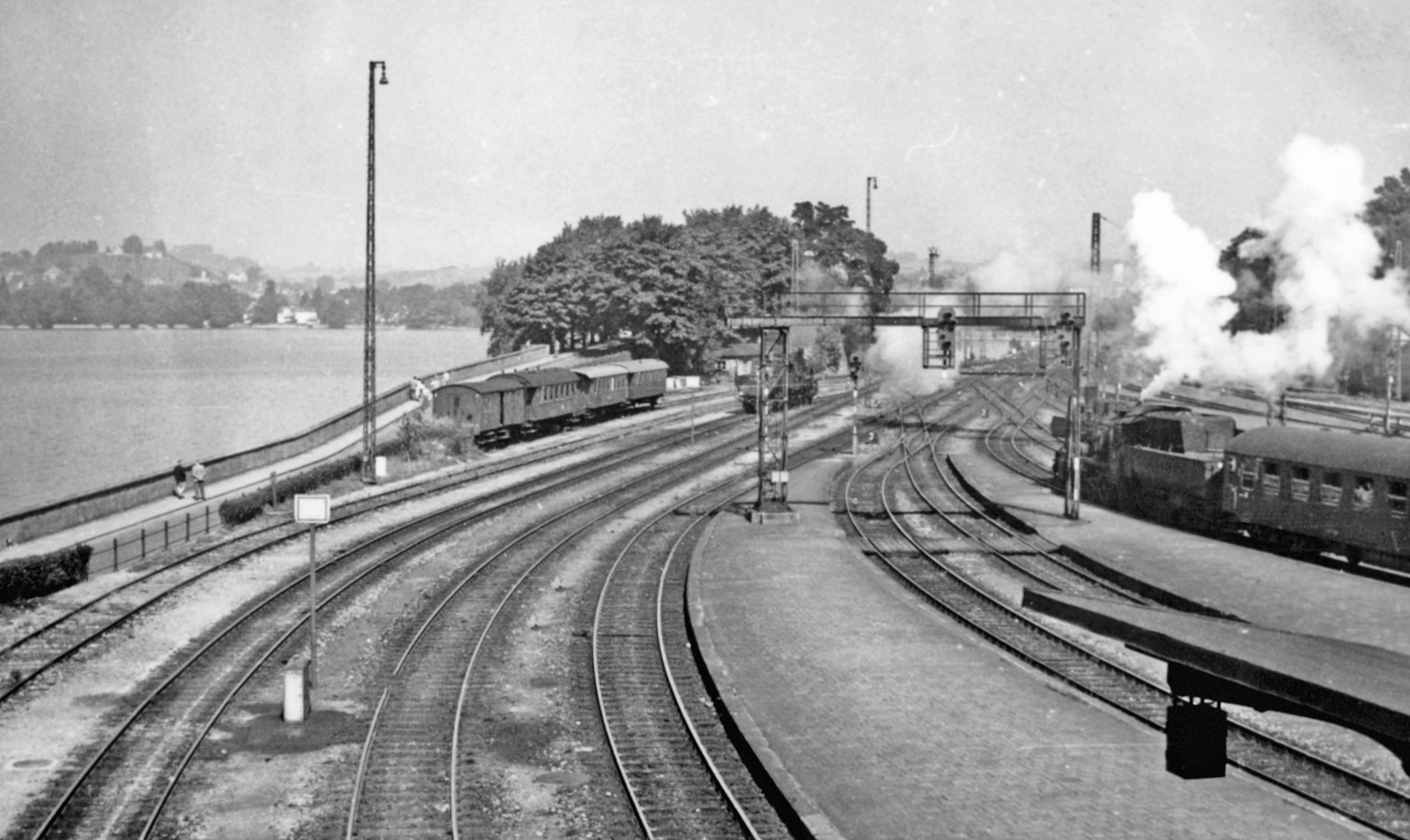 Lindau Hbf., 1958: view northward from the island towards Lindau town (Würtemberg). The station is on an island in the Bodensee and some distance from the town.